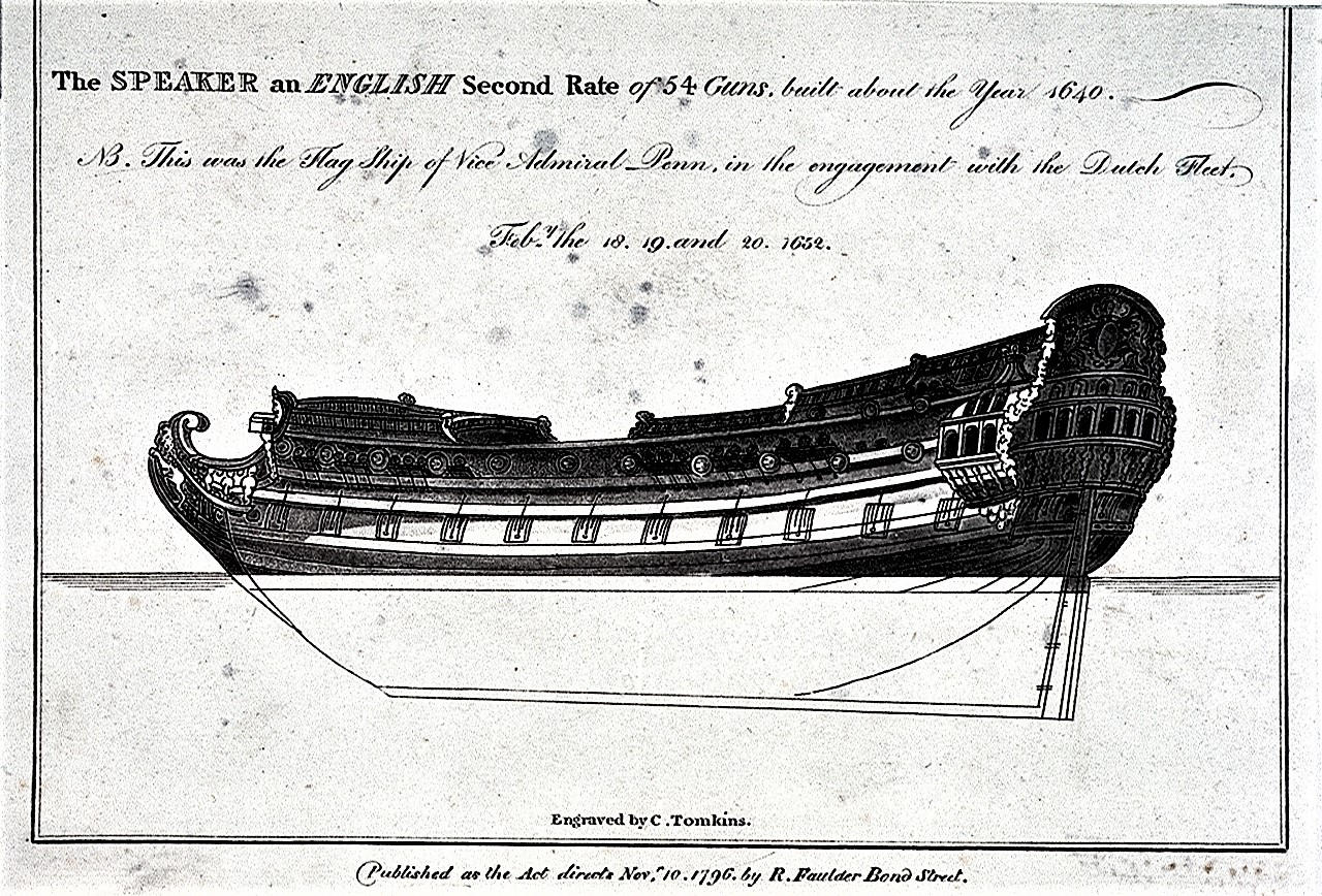 The Speaker an English second rate of 54 Guns built about the year 1640. NB This was the Flag Ship of Vice Admiral Penn in the engagement with the Dutch Fleet Feby the 18, 19 and 20 1652 Print